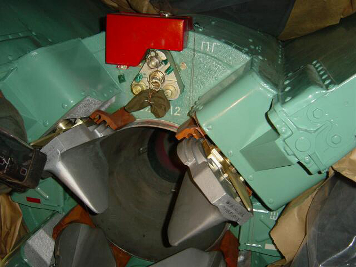 Gulf of Aden (Dec. 9, 2002) -- Scud missile parts and equipment found in the cargo hold aboard the North Korean vessel, So San, discovered after being boarded by Spanish Special Forces. So San attempted to evade capture, forcing the Spanish Santa Maria-class Frigate Navarra (F-85) to fire warning shots across its bow. Special Forces troops then conducted a hostile boarding by helicopter and small boat. The boarding team later found 15 disassembled Scud missiles concealed by bags of cement, bound for Yemen. U.S. military experts deployed in the area were called in to further examine the cargo. U.S. Intelligence sources had been tracking the vessel since it departed a North Korean port in mid-November. Photo released by Spanish Defense Ministry.